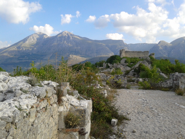 Ruins of Albe Vecchia, Massa d'Albe, Abruzzo, Italy